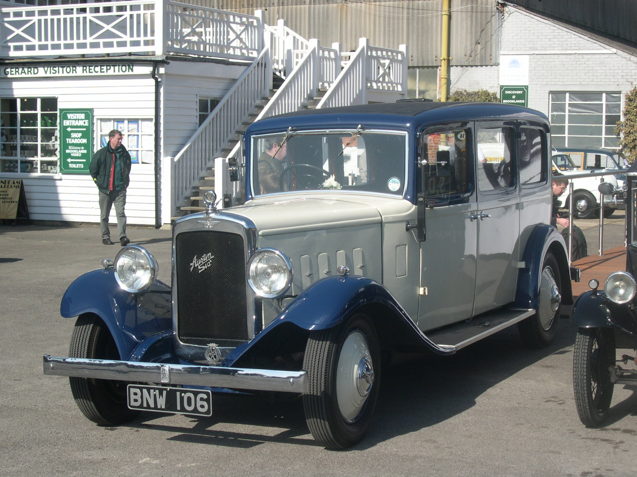 Austin 20/6 Ranelagh 1935